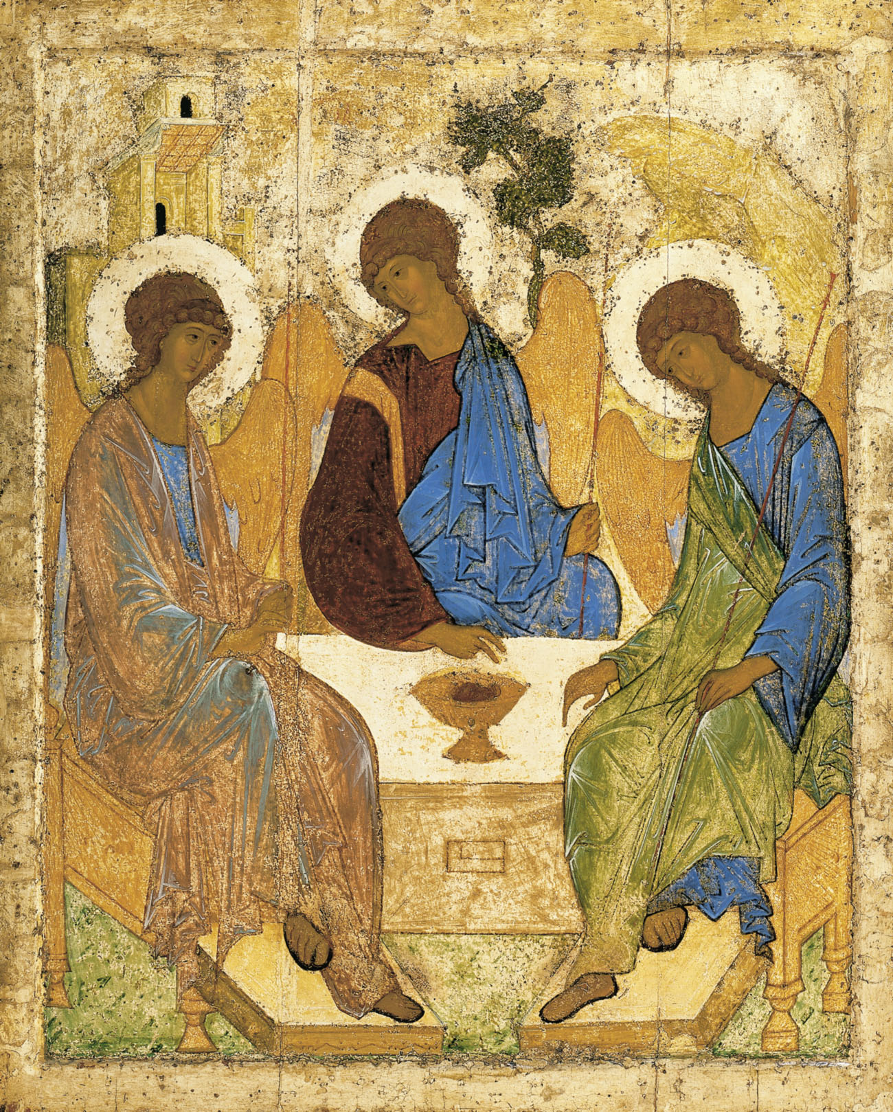 Rublev's famous icon showing the three Angels being hosted by Abraham at Mambré.